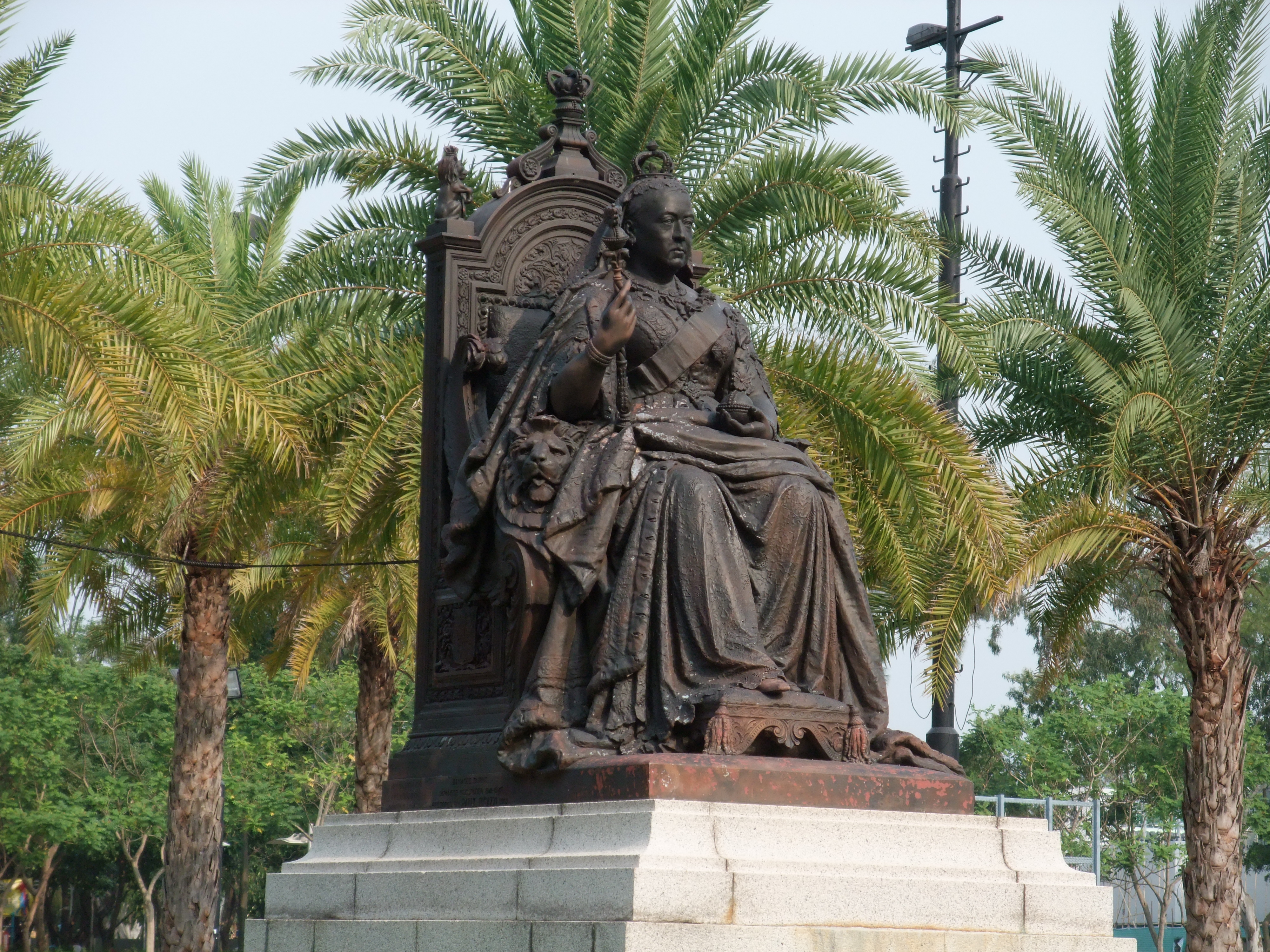 Photo of Statue of Victoria in Victoria Park